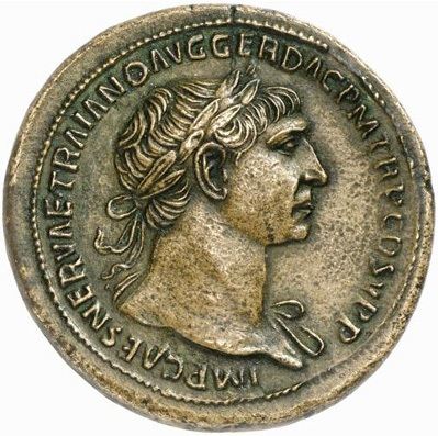 Traianus. AD 98-117. :Sestertius (Orichalcum, 25.83 g 6), Rome, 105. :::IMP CAES NERVAE TRAIANO AVG GER DAC P M TR P COS V P P Laureate head of Trajan to right, with slight drapery on his far shoulder.